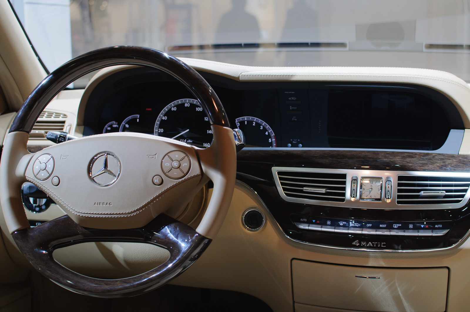 I love the dashboard design of this S-class. However, those gauges are completely virtual, displayed on a blank LCD screen; if the screen dies, I will have no functioning gauges. Bad design, in my opinion. The "4Matic" badging denotes all-wheel-drive. Normally the badging would also be outside, but on this particular car, the "Bluetec" badging for the diesel engine already takes up the space where the "4Matic" badging would otherwise go. Mercedes-Benz, for 2012, is making 4Matic mandatory on some models, including the S350 Bluetec and the E550. This generation of the Mercedes-Benz S550 (chassis W221) launched in the US with two models - the mainline S550 and the super-expensive S600. Eventually other models were added, including the S400 Hybrid and the S350 Bluetec; both models cost a bit less than the S550 while delivering better fuel economy. The S350 Bluetec is part of a new generation of clean-diesel German cars meeting California's stringent emissions regulations. These German cars use AdBlue, a proprietary urea solution, to reduce the nitrogen oxide emissions; AdBlue is slowly used up over time, so it needs to be refilled once a year. These vehicles also need the low-sulfur diesel fuel that is common in Europe but was unavailable in the US until 2007 or so. In the US, diesel-powered cars have limited appeal, partly because only selected gas stations have diesel, partly because diesel fuel often costs much more than gasoline (wiping out the diesel fuel economy advantage), and partly because the late 1970s General Motors diesels, hastily converted from gasoline power and notorious for engine failures, had left a bad taste in the motorists' minds. Seen at Los Angeles International Auto Show, 2011.